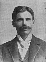 Louis Hutchinson Galbreath from 1900 addition of "The School Journal"